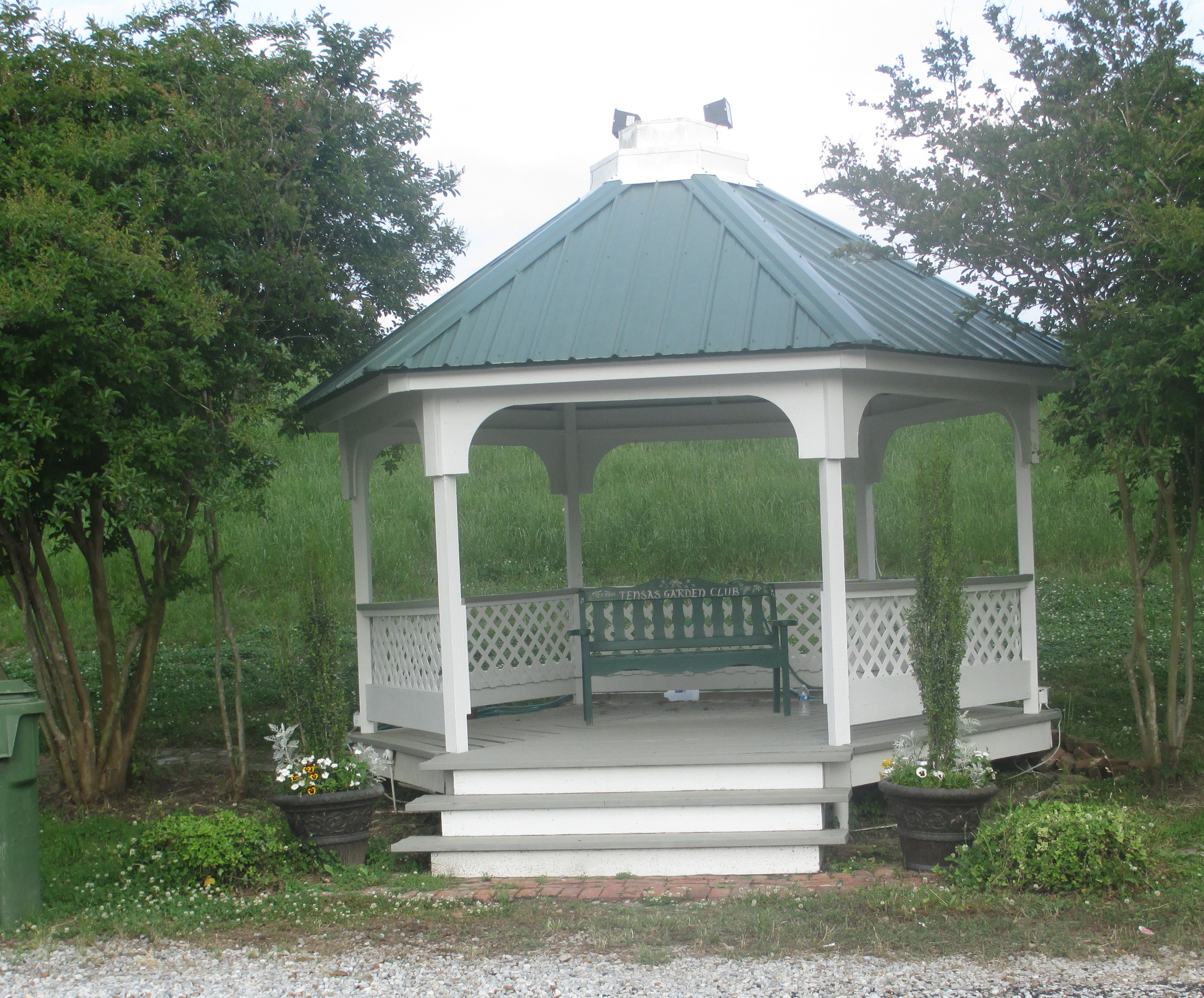 I took photo with Canon camera of gazebo at the end of Plank Road in downtown St. Joseph, LA.